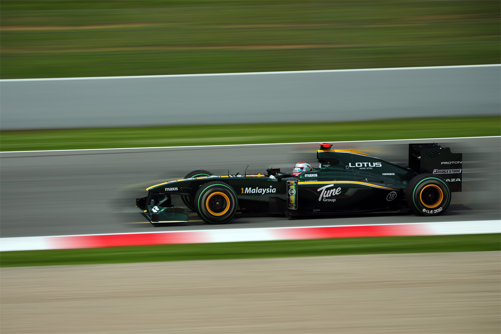 Jarno Trulli driving for Lotus Racing at the 2010 Spanish Grand Prix.